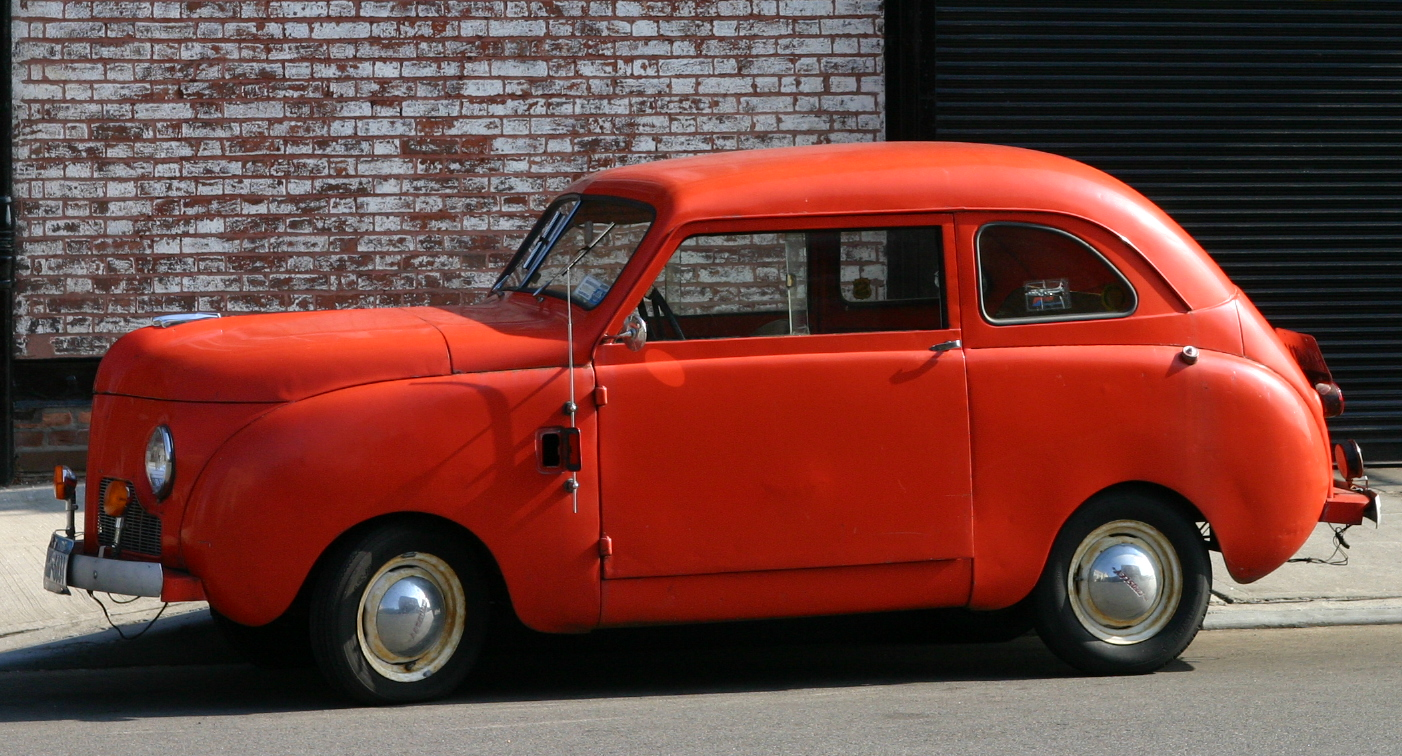 This photo is of Wikis Take Manhattan goal code J6, Duff's Brooklyn.